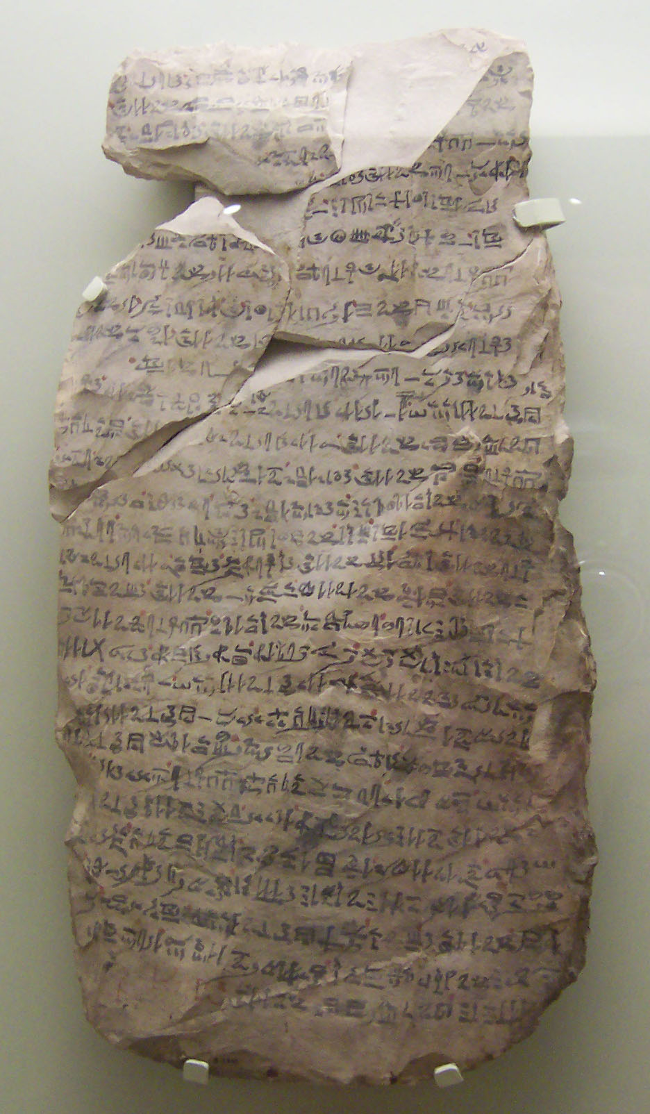 Hieratic script on a limestone slab. The script was written as an exercise by a schoolboy in Ancient Egypt. He copied four letters to the vizier Khay. One letter from an overseer working on the royal tomb asks for various pigments and "old rags for the lamps". Taken at the Royal Ontario Museum.